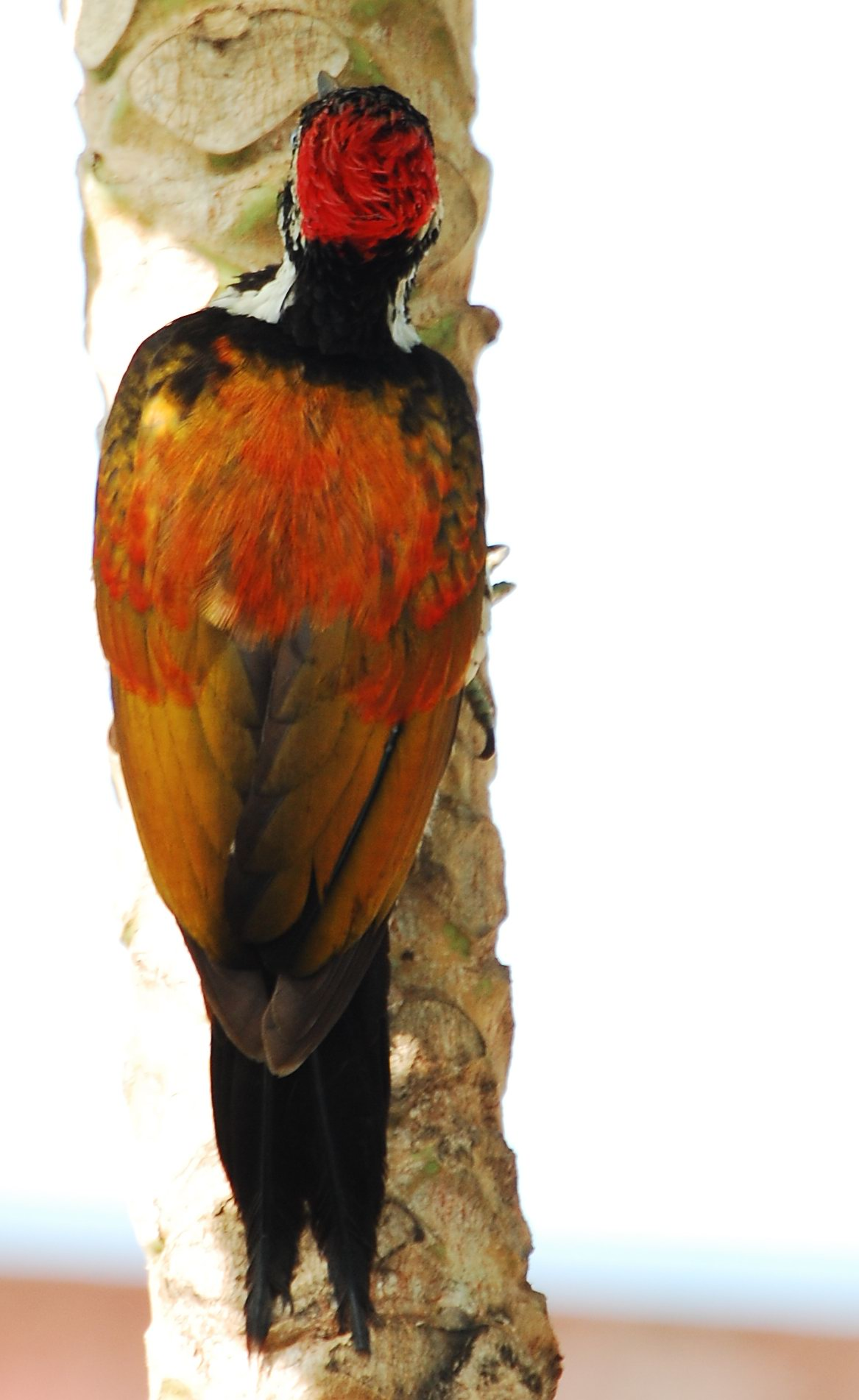 Kerala Goldenbacked Woodpecker